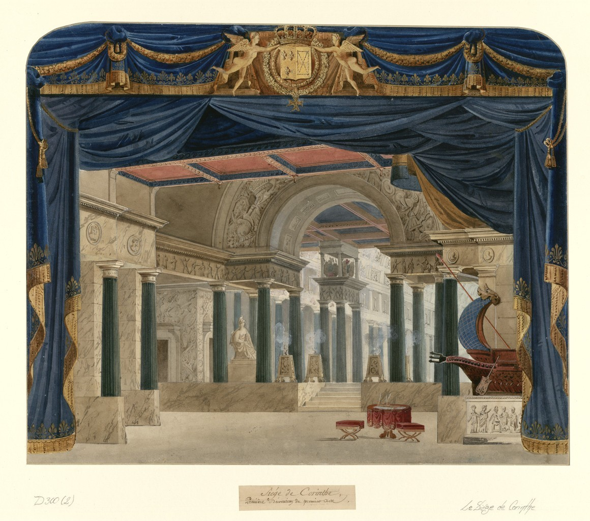 Rossini - Le siège de Corinthe - Auguste Caron - Paris 1826 - acte I, tableau 1, le vestibule du palais du Sénat à Corinthe Académie Royale de Musique-Le Peletier, 09-10-1826 1 dess. : aquarelle avec rehauts de gouache ; 320 x 395 mm